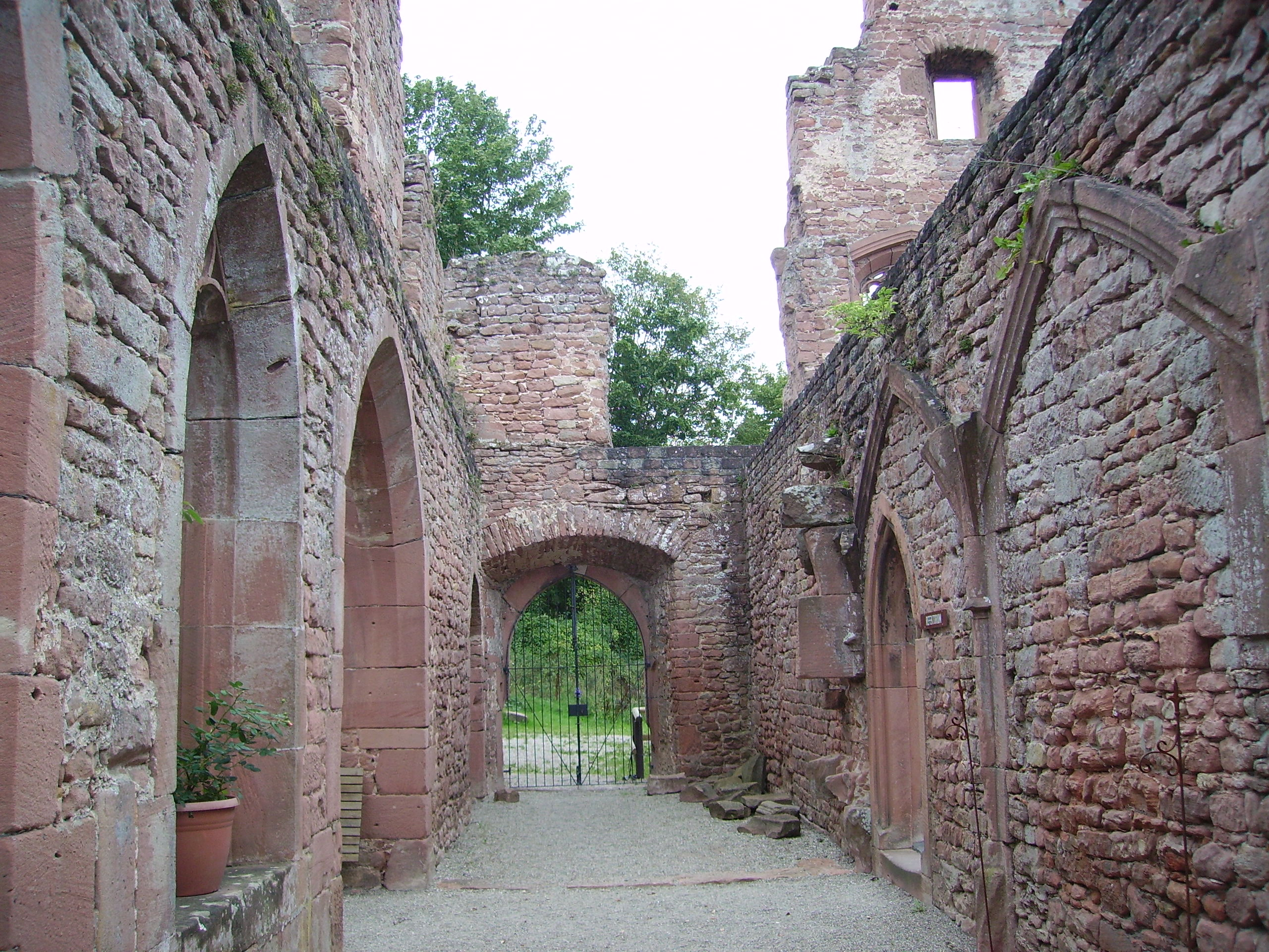 Limburg (Bad Dürkheim), Germany